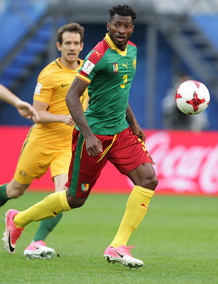 Cameroon vs Australia (1-1). FIFA Confederations Cup 2017